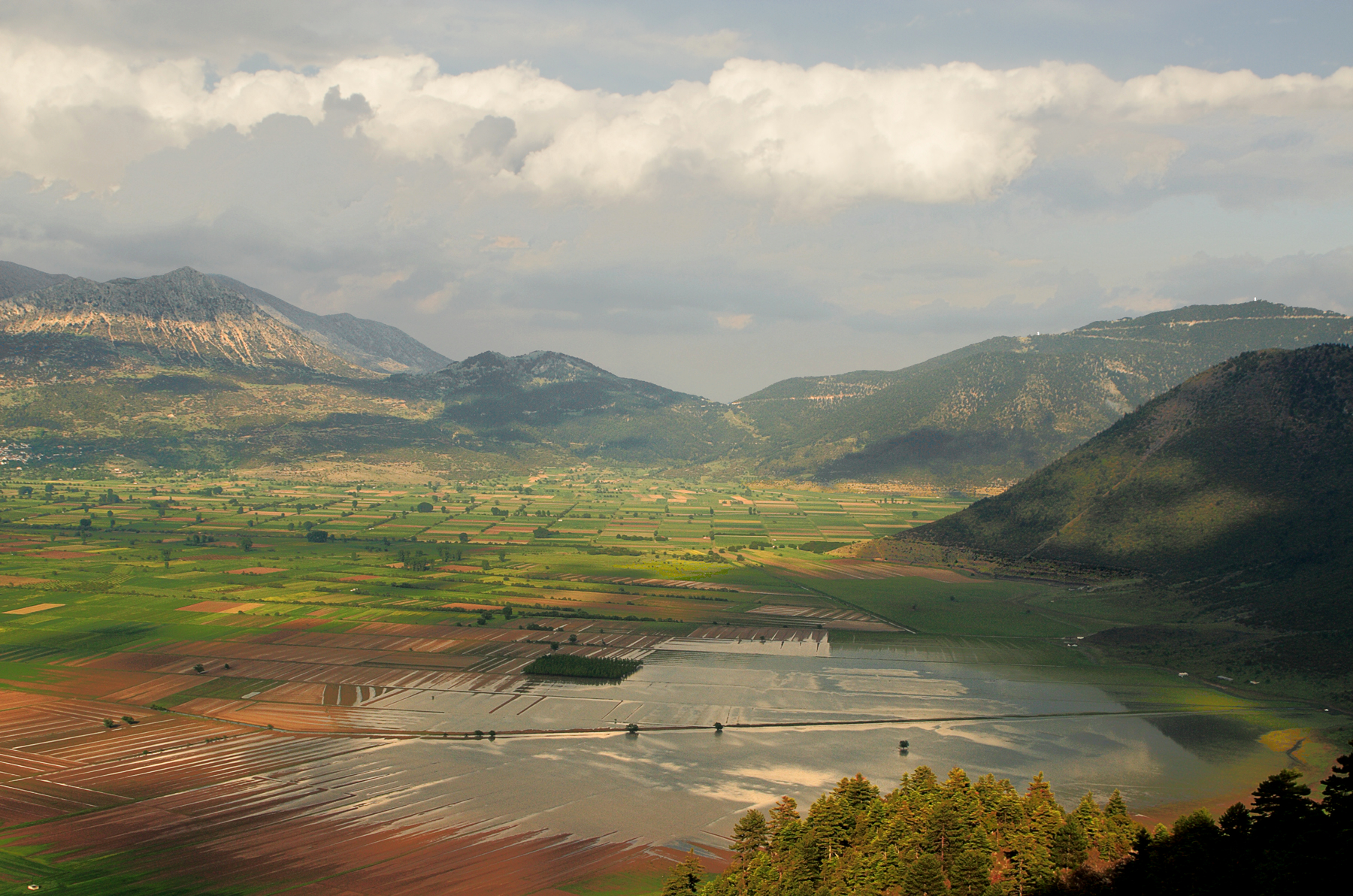 Karst Field (polje) in 700m, 15km long, before 1900 a lake for long periods (see residuals of lake banks), Northeast Peloponnese.